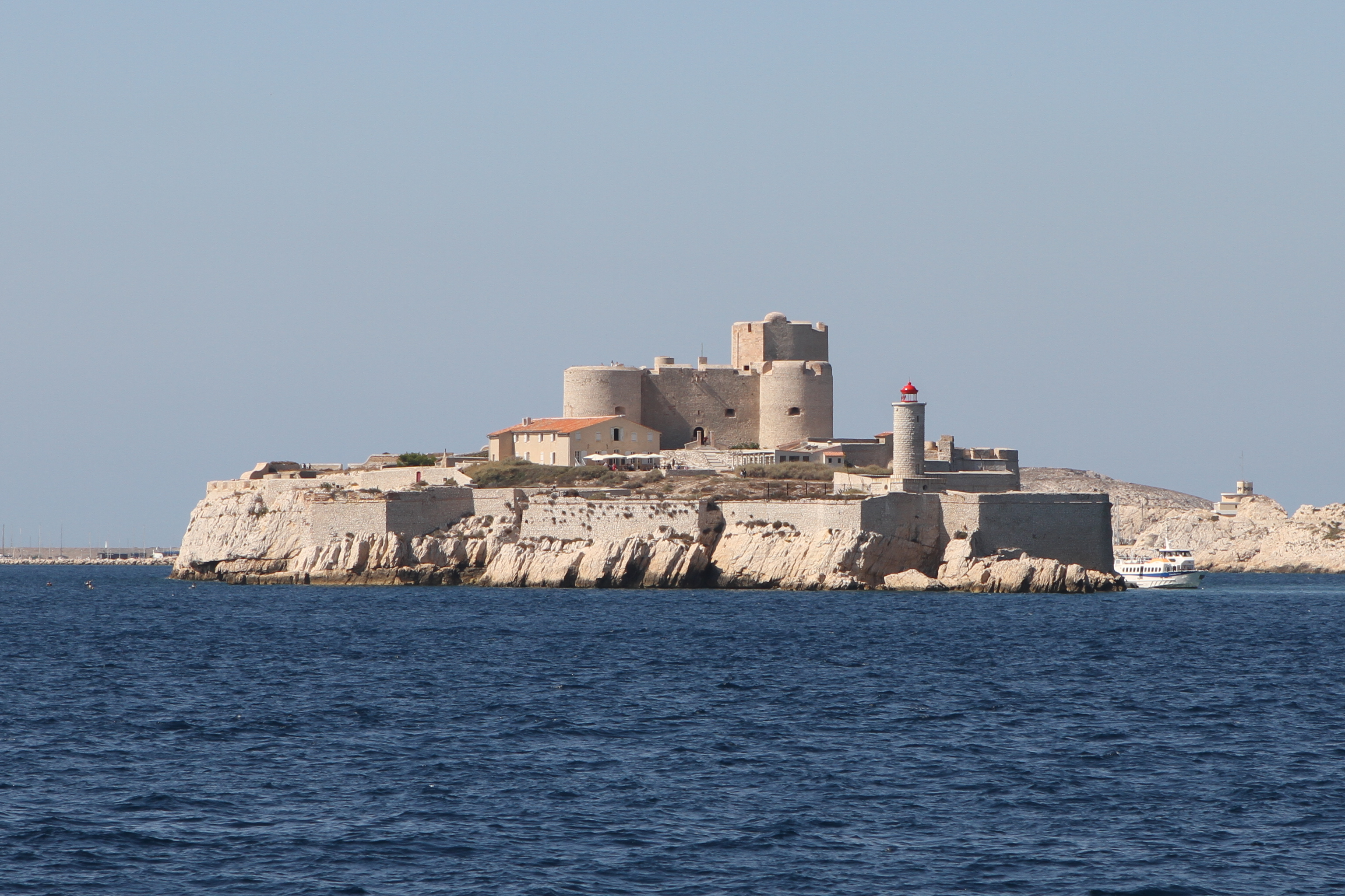 The Château d'If, view from a boat (Bouches-du-Rhône, France)